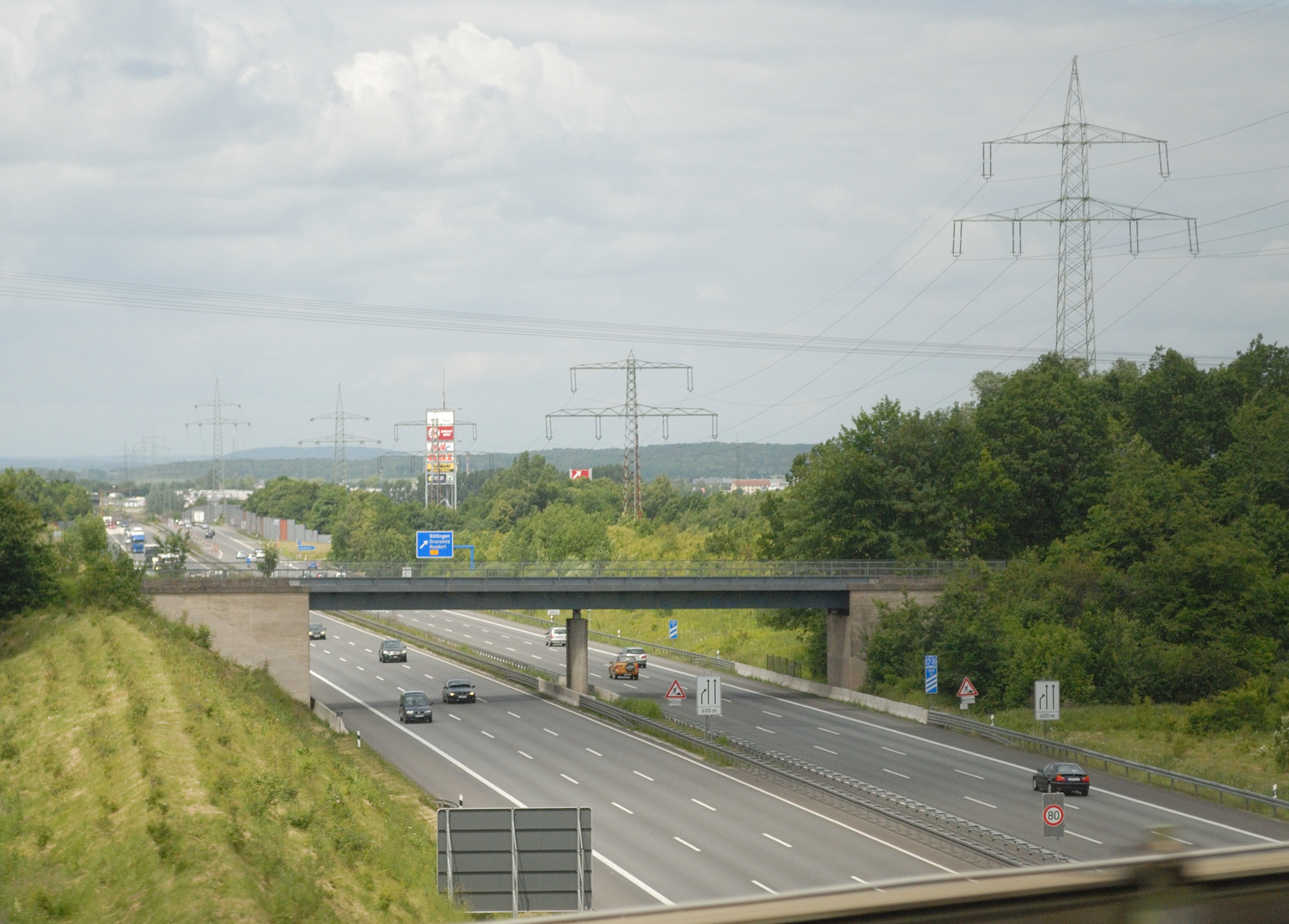 View of A 7 from ICE crossing a bridge near Göttingen.